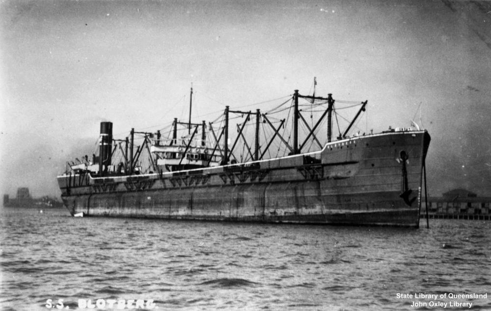 4,850 GRT cargo steamship Blotberg, turret-deck ship built in 1907 by Wm Doxford in Sunderland as Blommersdijk for Nederlandsch Amerikaansche Stoomvaart Maatschappij (NASM). WH Müller of Rotterdam bought her in 1916 and renamed her Blotberg. In October 1916 a German submarine sank her by shellfire a few miles east of the Nantucket lightship.